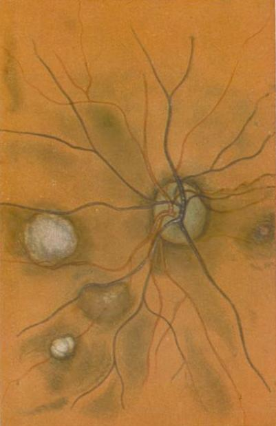 retinal changes visible in fundoscopy in patient with tuberous sclerosis (Bourneville disease). Drawing from van der Hoeve's classic paper